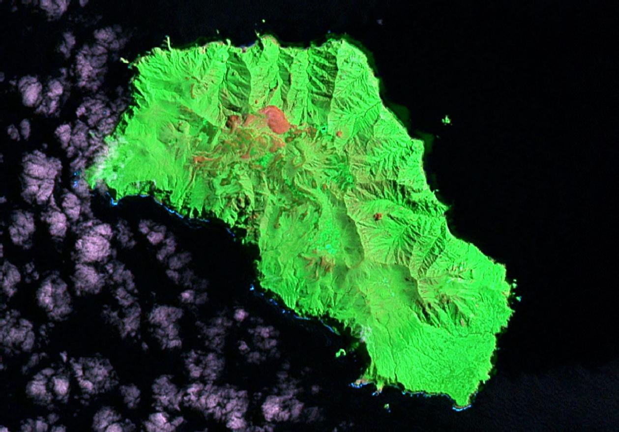 Landsat image of Gough Island, Tristan da Cunha, South Atlantic Ocean (Landsat S-29-40_2000)